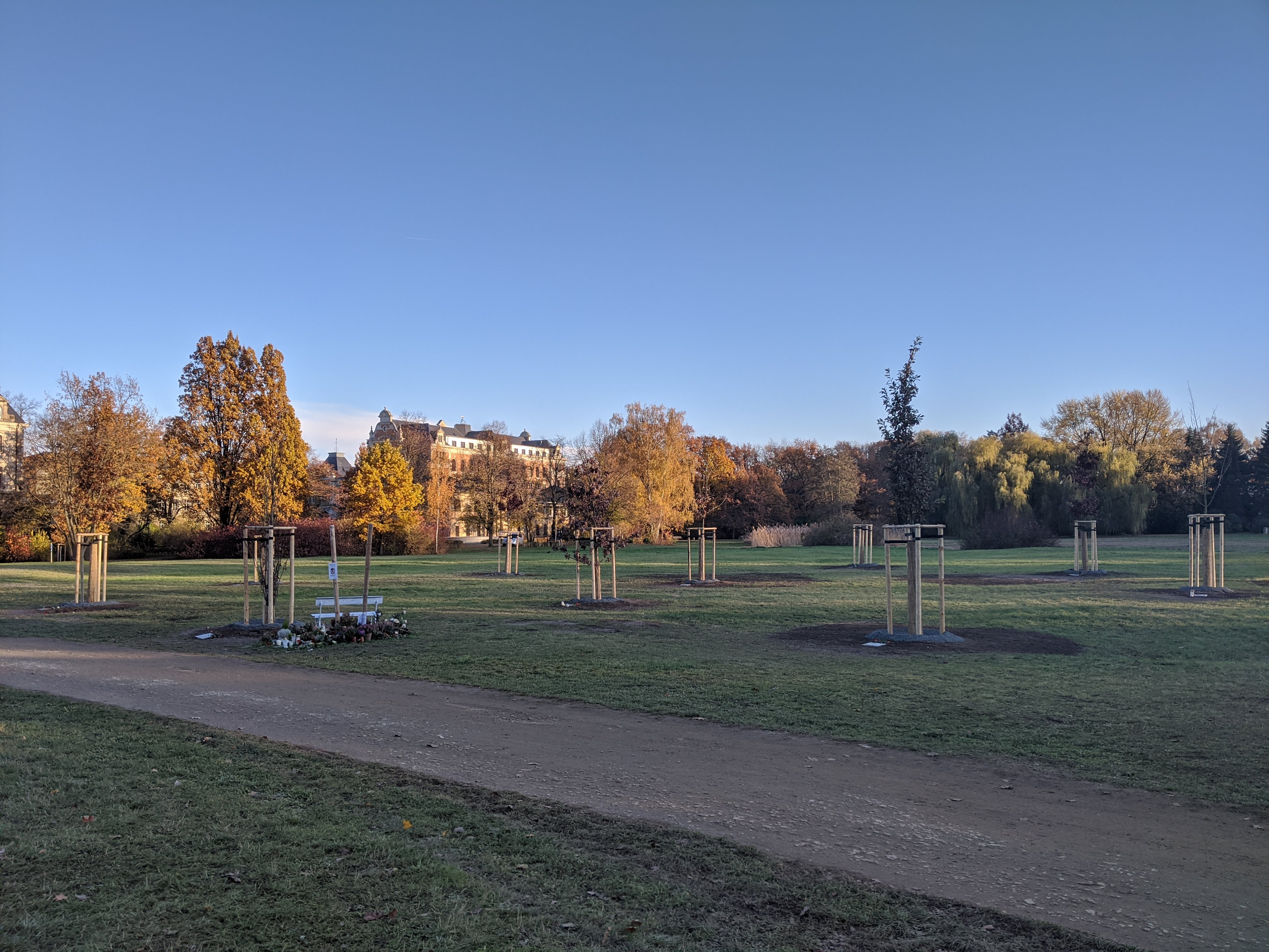 National Socialist Underground memorial Zwickau, Germany